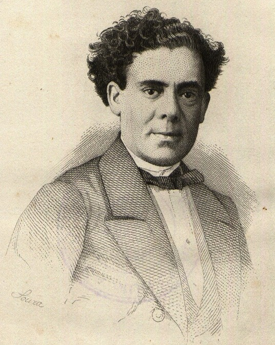 Francisco Alves da Silva Taborda (1824-1909), Portuguese actor.